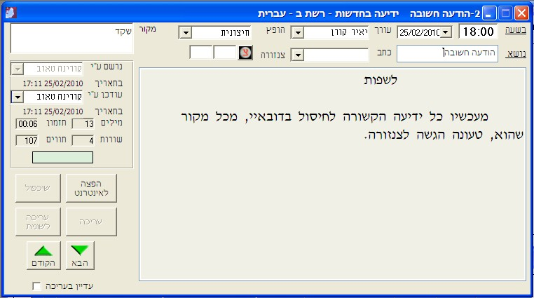 In Hebrew: The Israeli military censor requires local media to clear any news item about the assassination in Dubai, from any source.